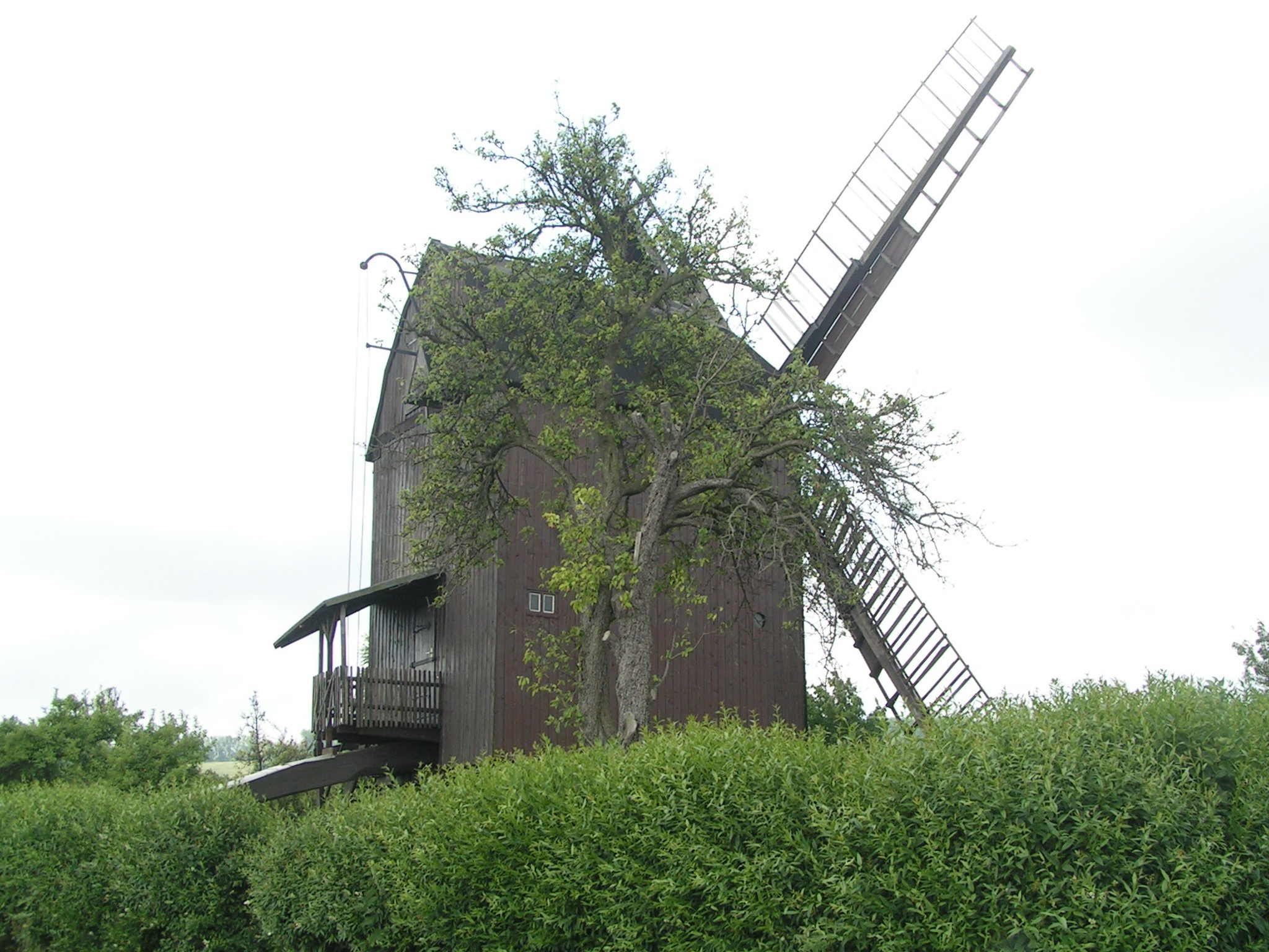 One windmill in the village Badersleben, Germany, Saxony-Anhalt